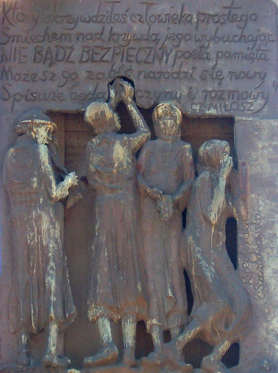 Czeslaw Milosz poem on the Memorial of Fallen in 1970 Shipyards Workers. Gdansk, Poland